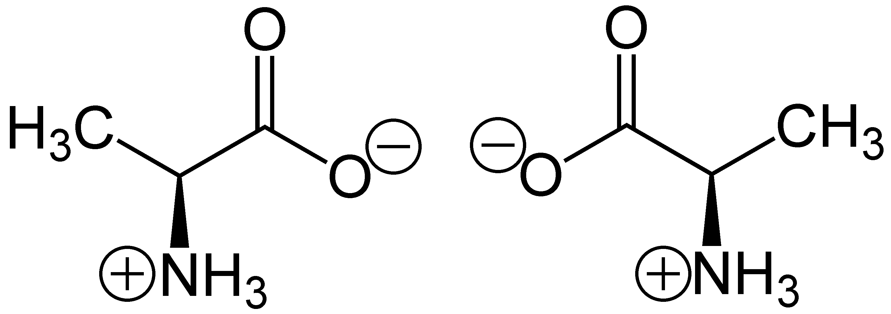 Zwitterion-Alanine